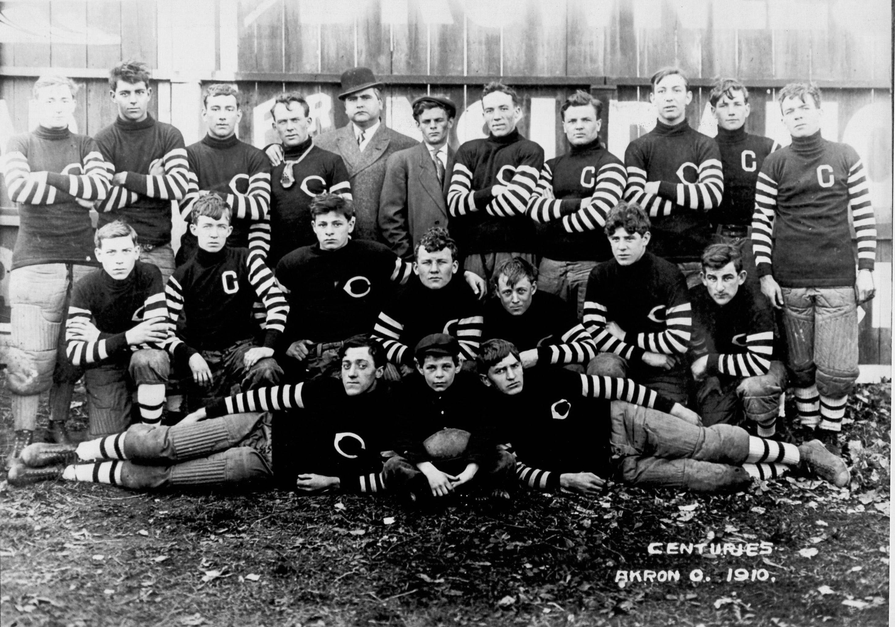 The Akron Ohio "Centuries" football team.